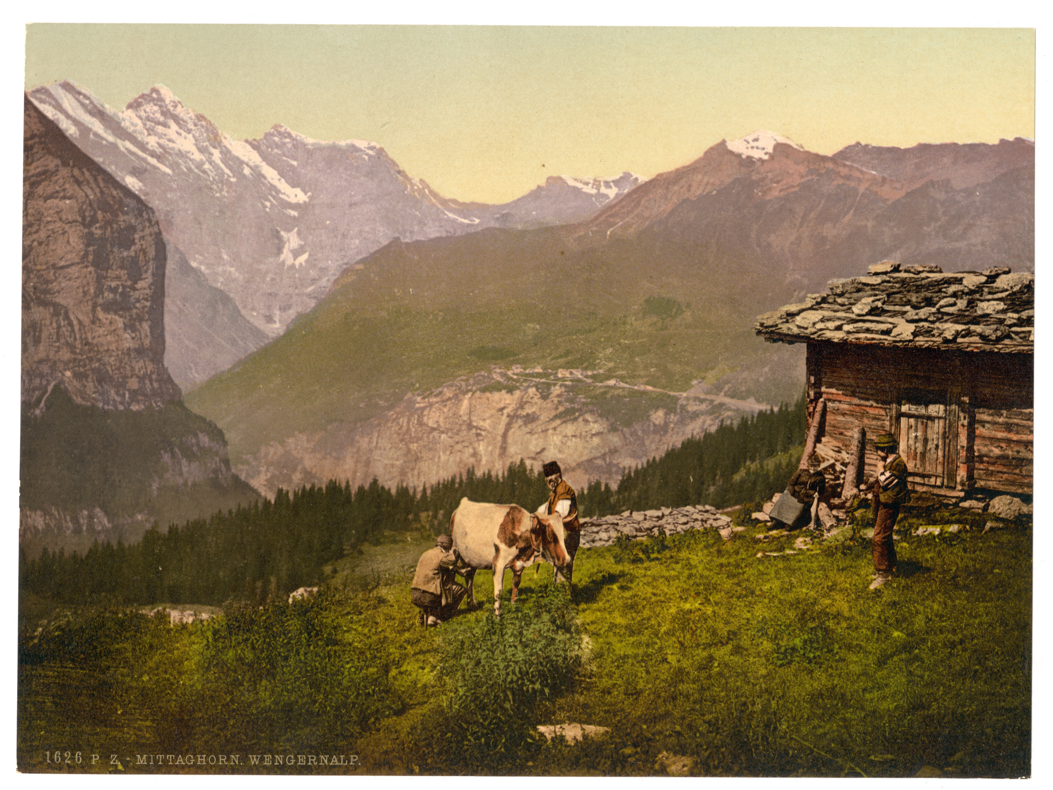 Forms part of: Views of Switzerland in the Photochrom print collection.; Title from the Detroit Publishing Co., Catalogue J-foreign section, Detroit, Mich. : Detroit Publishing Company, 1905.; Print no. "1626".